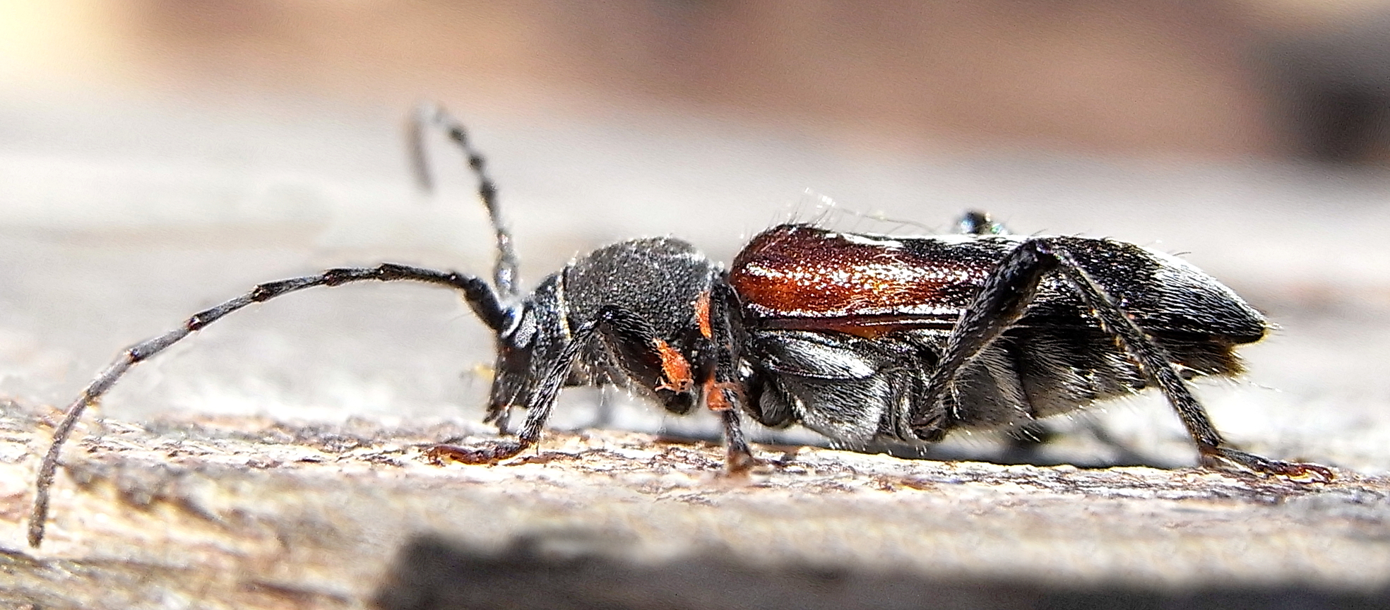 Anaglyptus mysticus from Southern Germany, with red mites on front and middle legRicoh R8